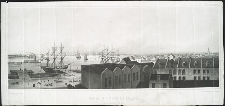 View of New Orleans, taken from the Lower Cotton Press. 1850 The "Lower Cotton Press" or "Levee Steam Cotton Press" was a large industrial structure which used steam power to compress cotton bales for shipping. It was located at the foot of Press Street (the origin of the street's name) at the lower end of the Faubourg Marigny neighborhood. The view is looking upriver.